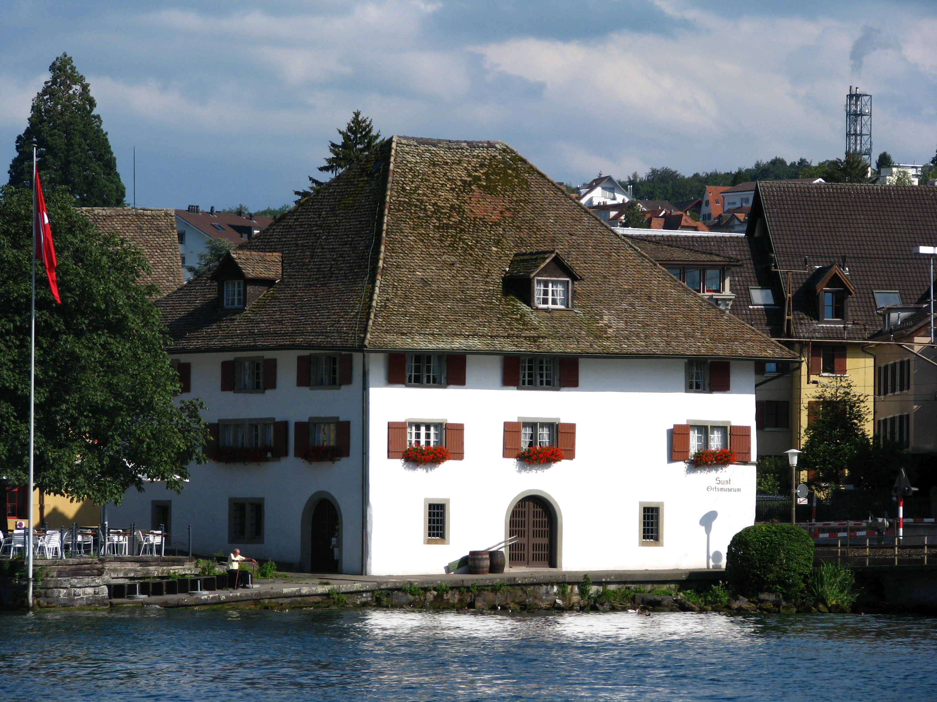 Zürichsee (Lake Zürich) : Sust (warehouse) and museum of local history in Horgen at northeastern Zimmerberg.